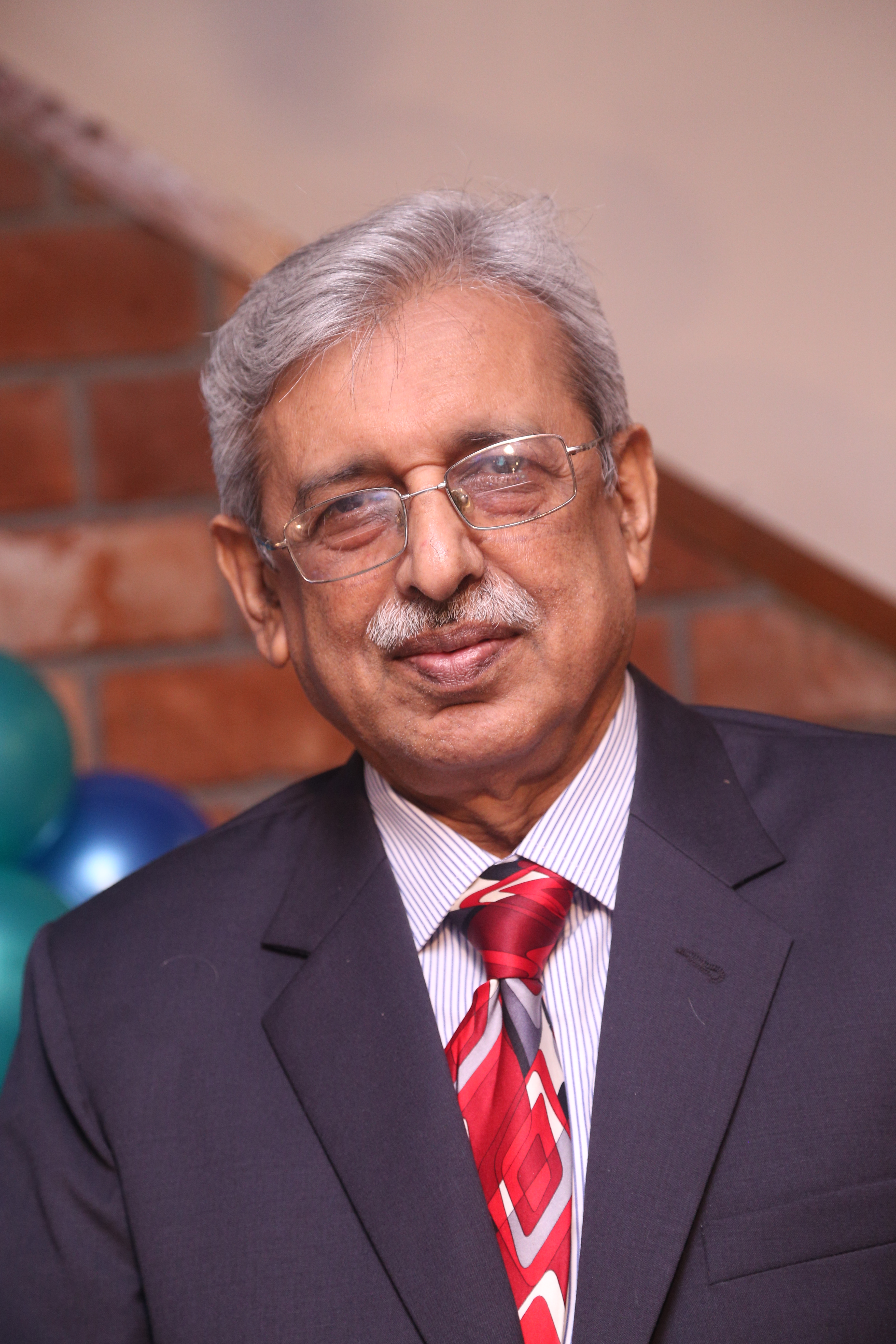 M.FerozeAhmedSeptember16-2015PictureStamford.jpg